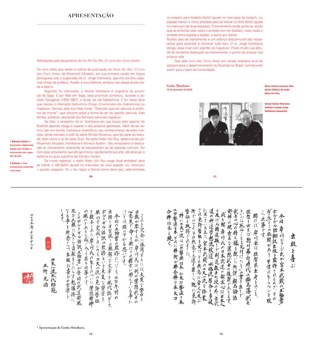 Presentation to the brazilian edition of the Miyamoto Musashi's Book of Five Rings written by Shihan Gosho Motoharu of the Gosho Ha Hyoho Niten Ichi Ryu